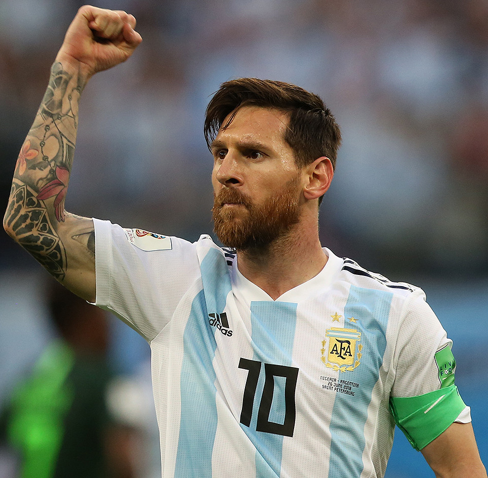 Argentine footballer Lionel Messi on 26 June 2018, celebrating a goal in the 2018 FIFA World Cup group stage match against Nigeria.